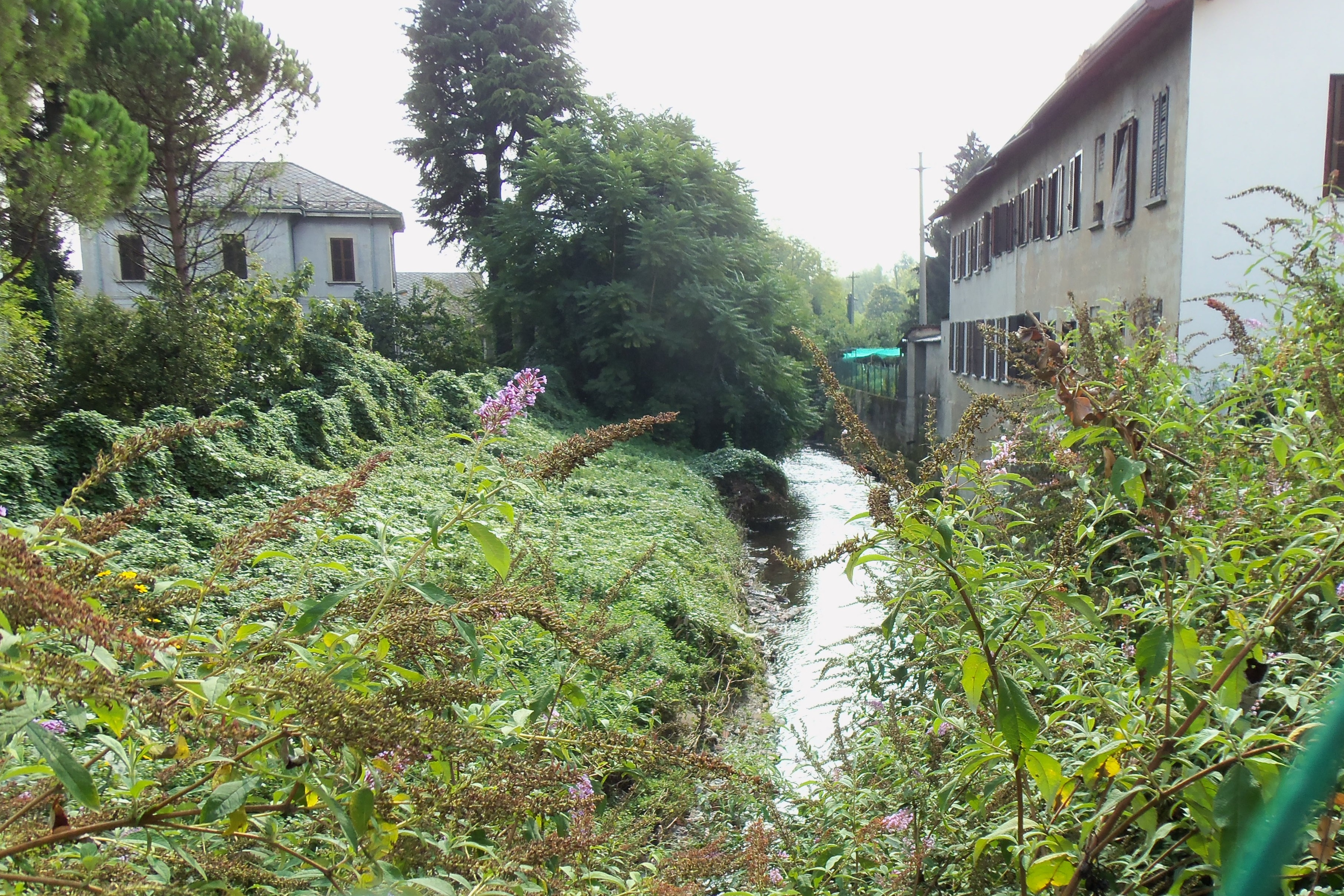 The Seveso river in Camnago (Lentate sul Seveso)